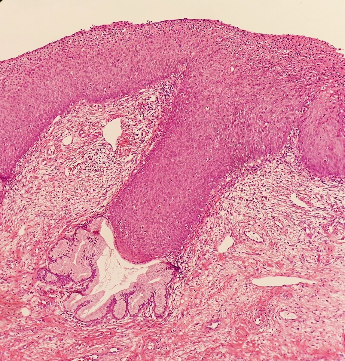 Histopathology of CIN 3 with endocervical gland invasion. From the same case: Template:CIN 3 - case 1